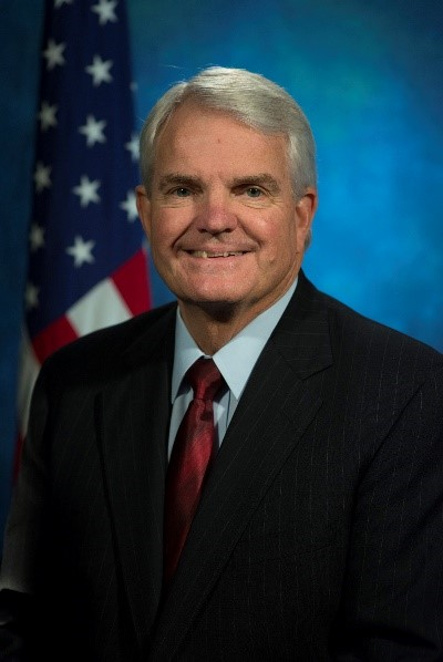 Stephen B. King official US Ambassador to the Czech Republic potrait